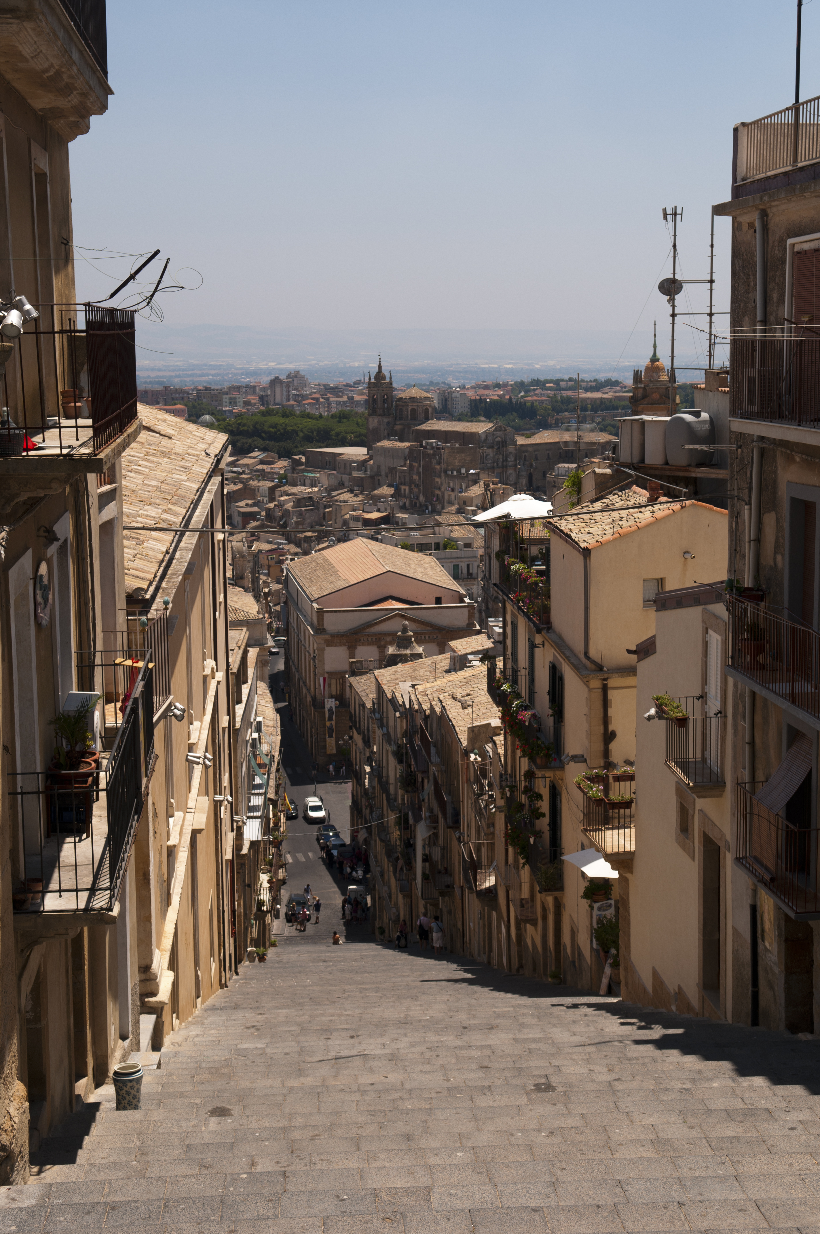 Caltagirone, Sicily, Italy